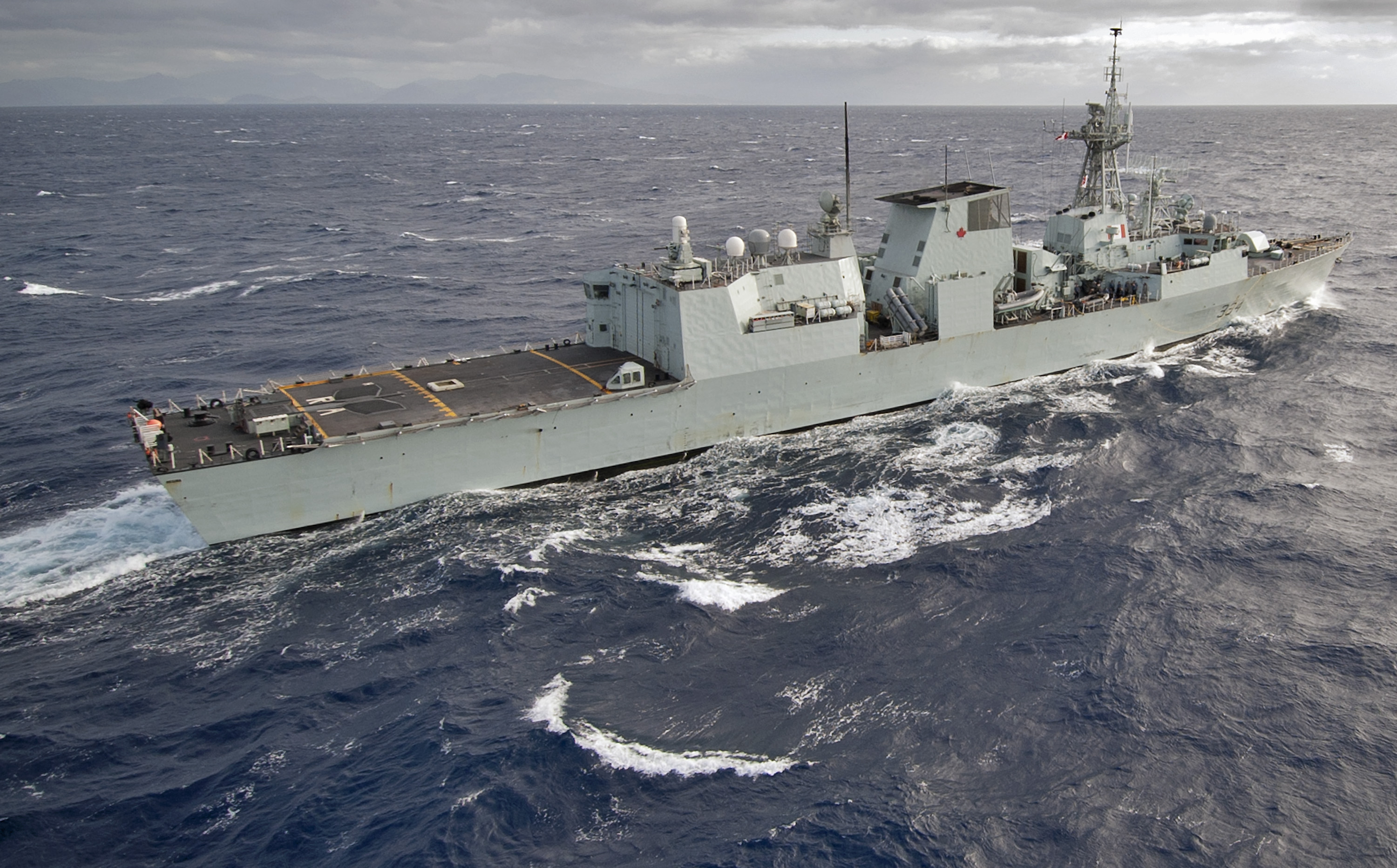 The Canadian patrol frigate HMCS Regina (FFH334) navigates off the coast of Hawaii March 4, 2013, prior to a scheduled port visit to Joint Base Pearl Harbor-Hickam in Hawaii. The Regina visited Hawaii as part of an eight-month deployment to the Pacific.